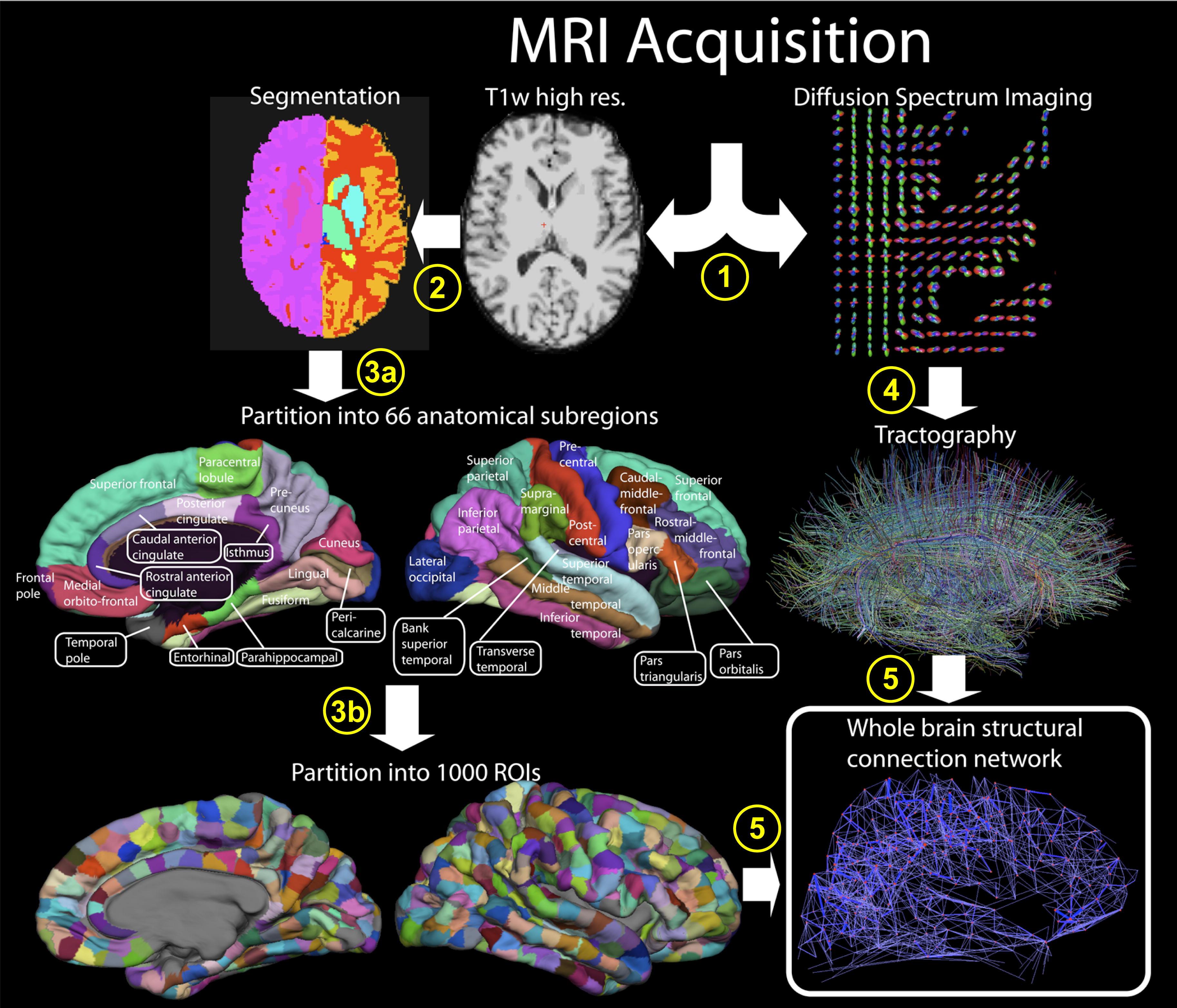 Procedure for the extraction of a Whole Brain Structural Connectivity Network followed by the authors in the article Mapping the Structural Core of Human Cerebral Cortex, Published in PLoS Biology, Vol.6, No. 7